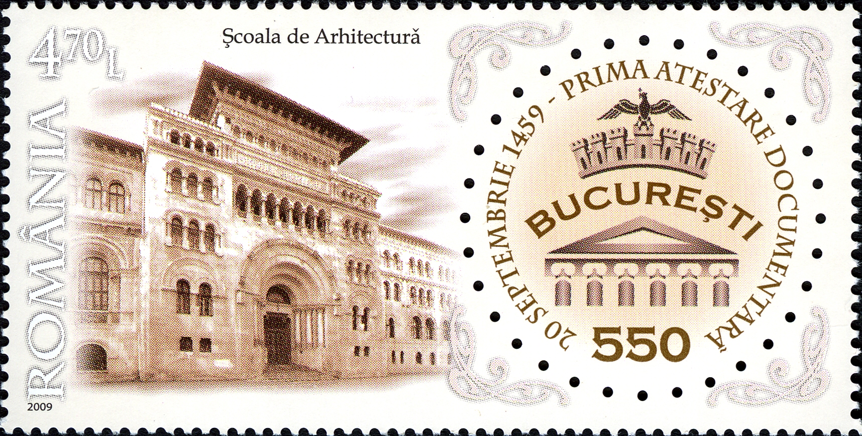 Stamps of Romania, 2009